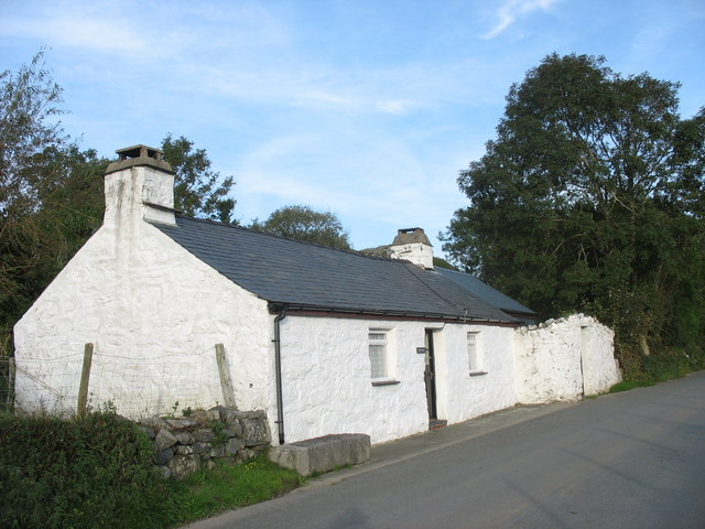 Bod Hyfryd - Traditional Welsh Cottage